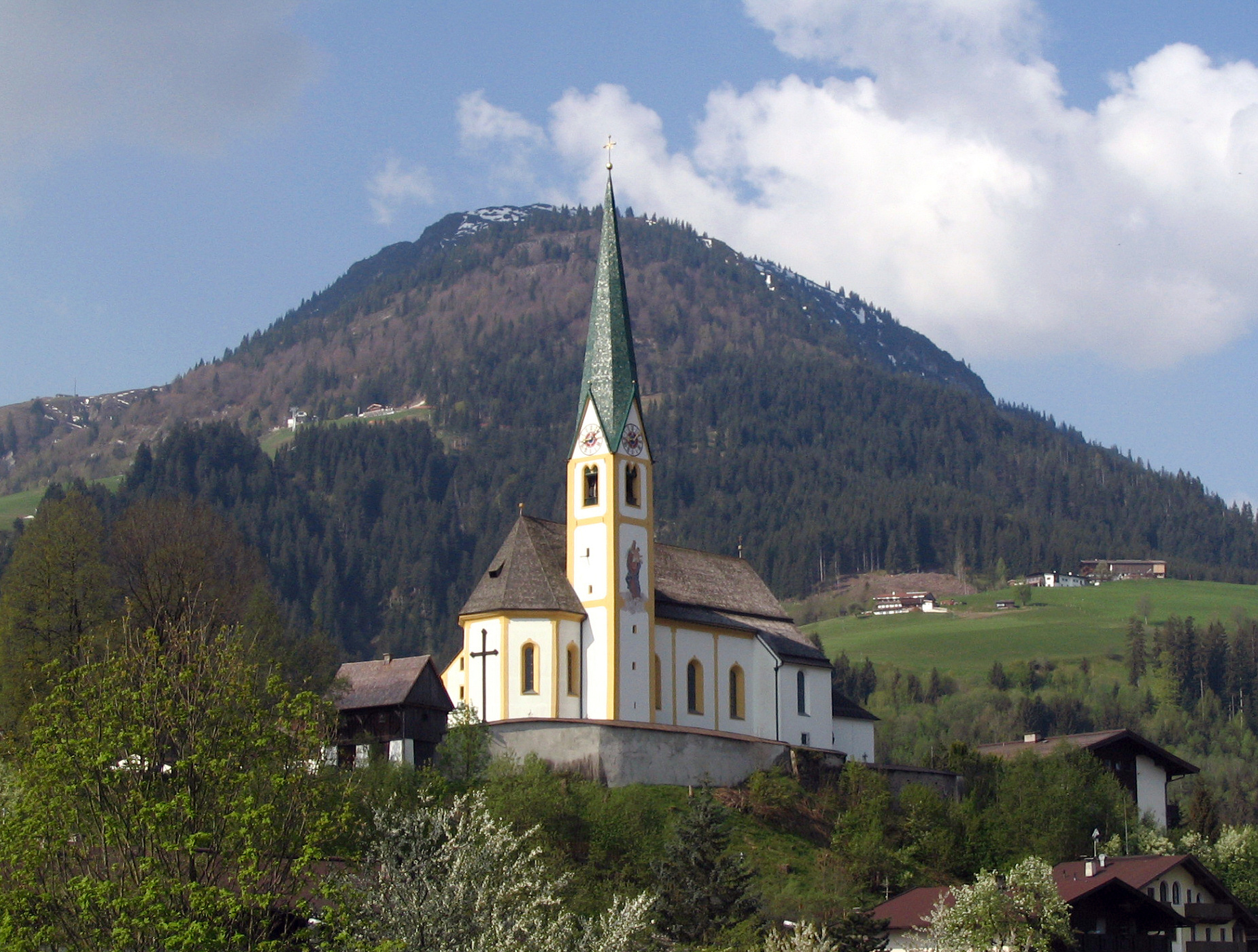 The church in Kirchberg, Tyrol, Austria. In the background the Gaisberg mountain.